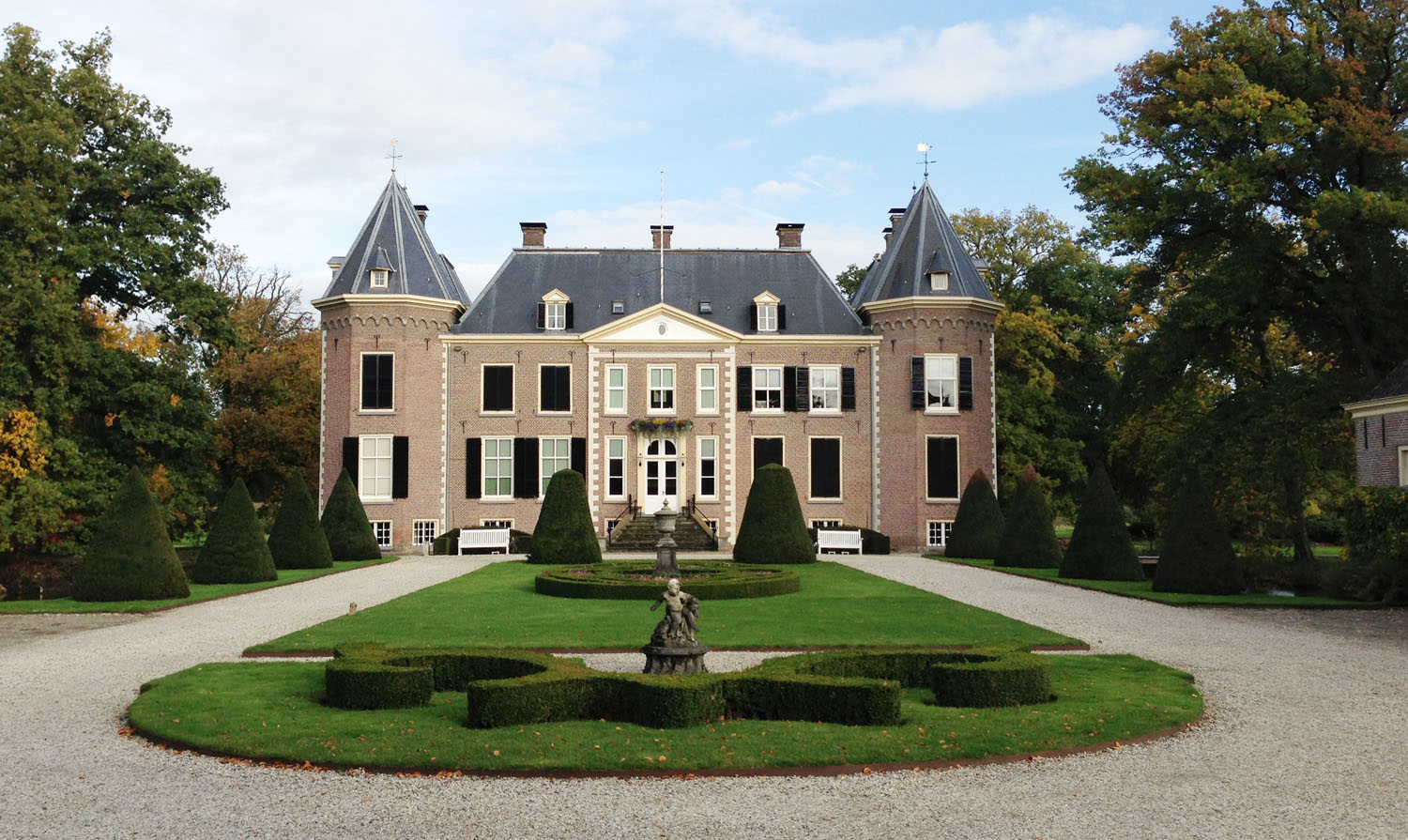 The manor house Nijenhuis near the village of Diepenheim in the Dutch province Overijssel.